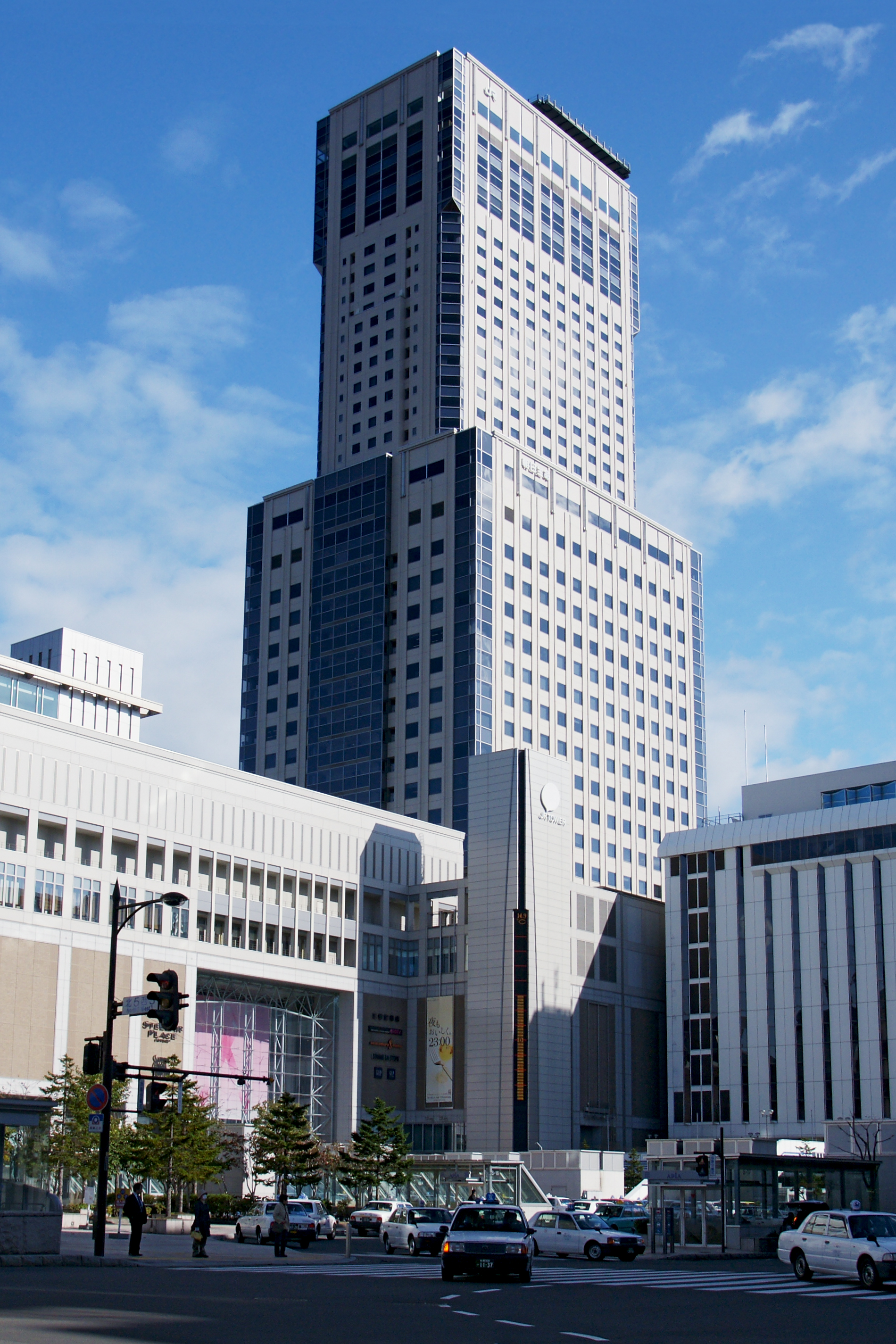 JR Tower in Sapporo, Hokkaido prefecture, Japan